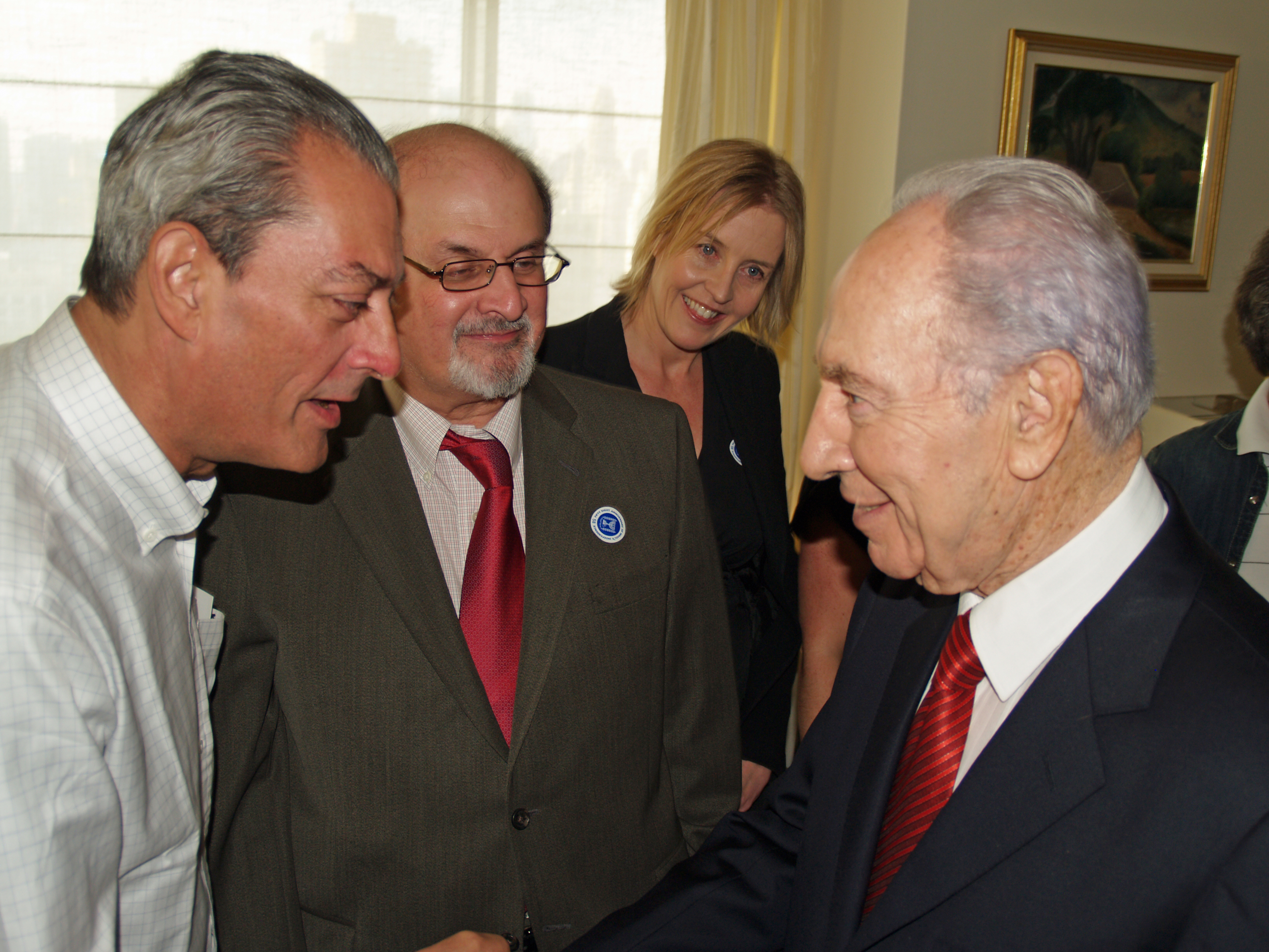 Paul Auster, Salman Rushdie and Shimon Peres at a breakfast honoring Israeli literary legend Amos Oz on the Upper East Side of Manhattan in New York City. Photographers blog post about this event and photograph.